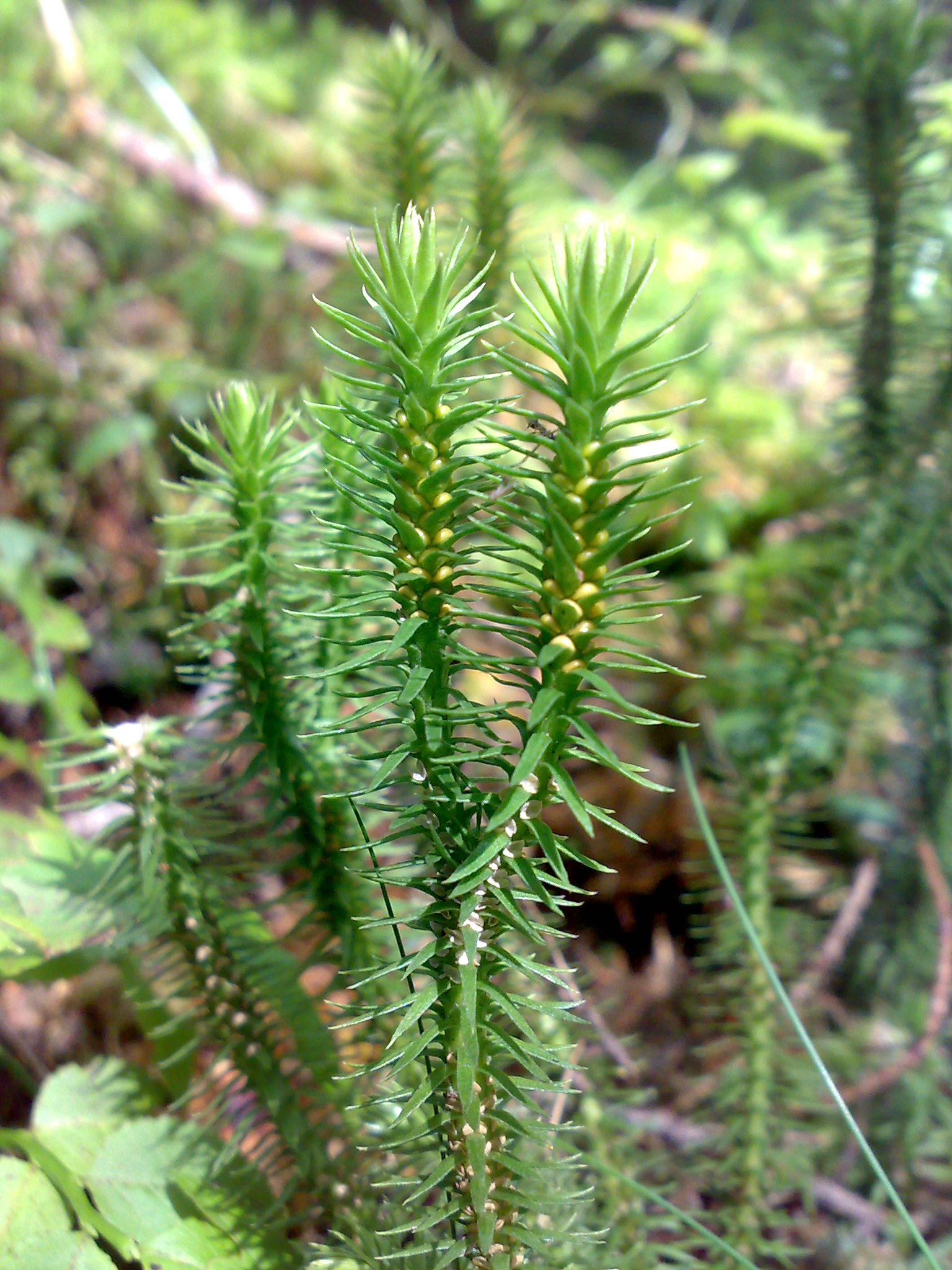 Huperzia selago Lusegras in Hurum, Norway